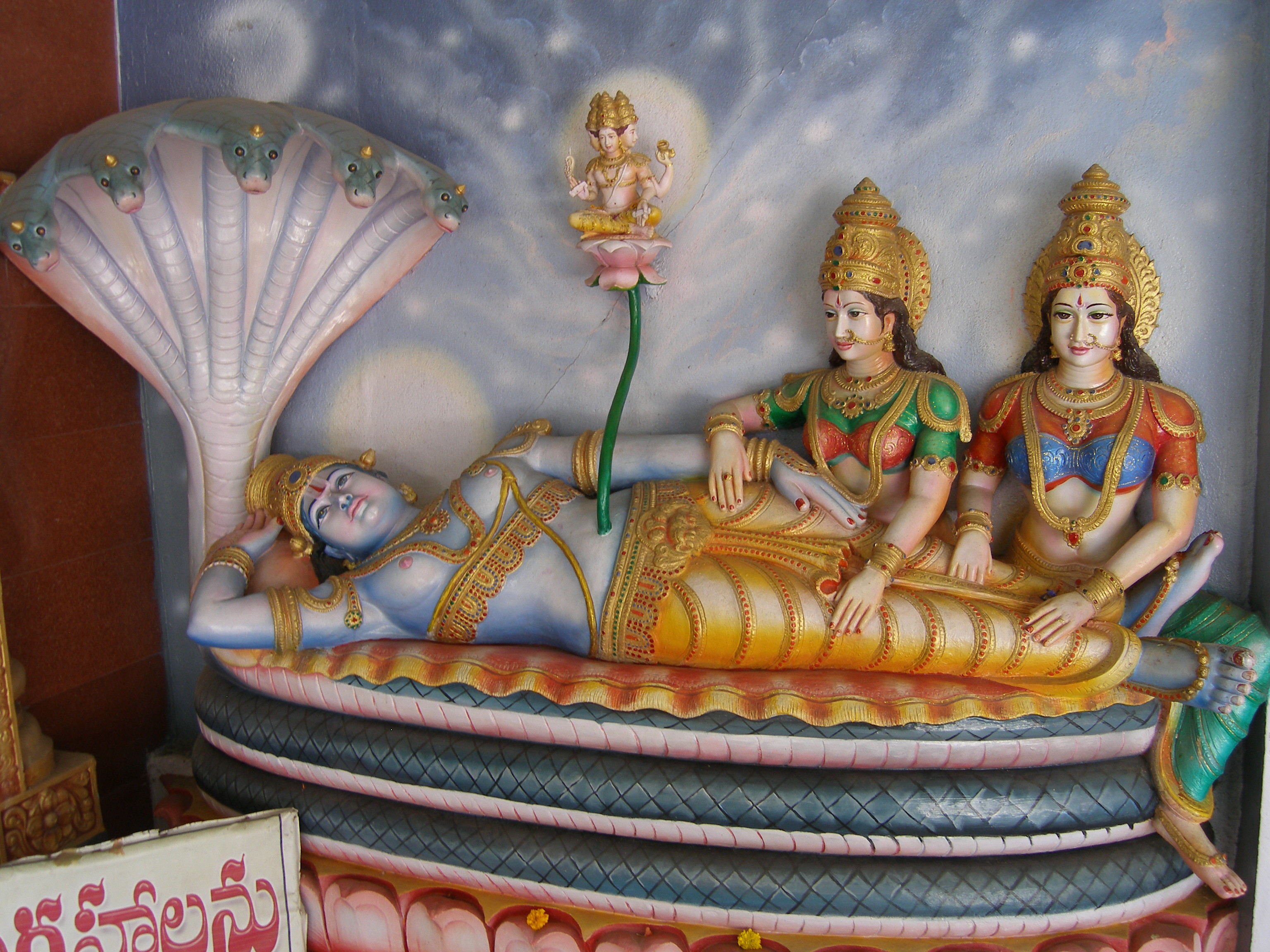 Mahavishnu at Narayana Tirumala.